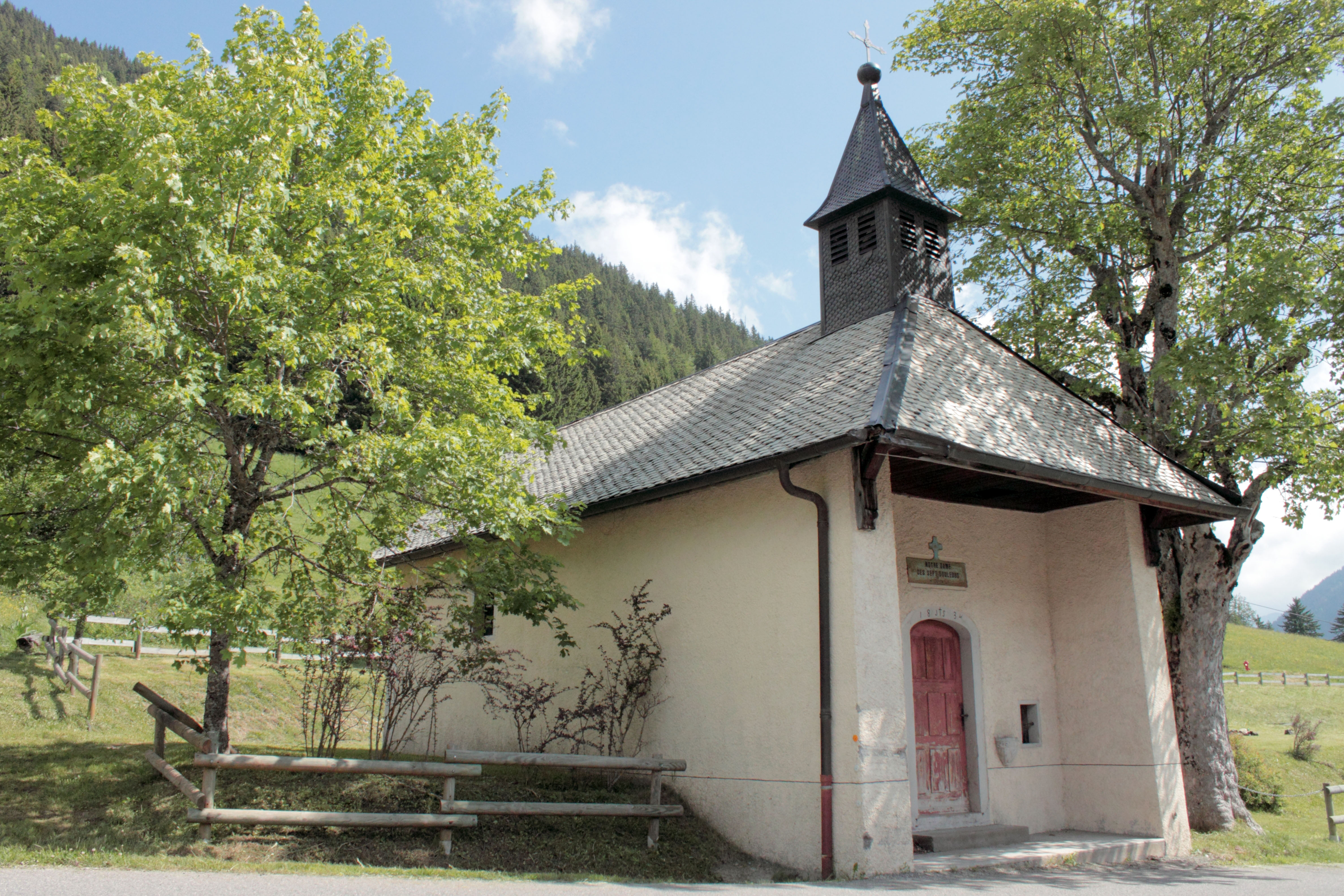 Col du Corbier, Haute-Savoie, France, 26 June 2013,Notre-Dame-des-Sept-Douleurs Chapel